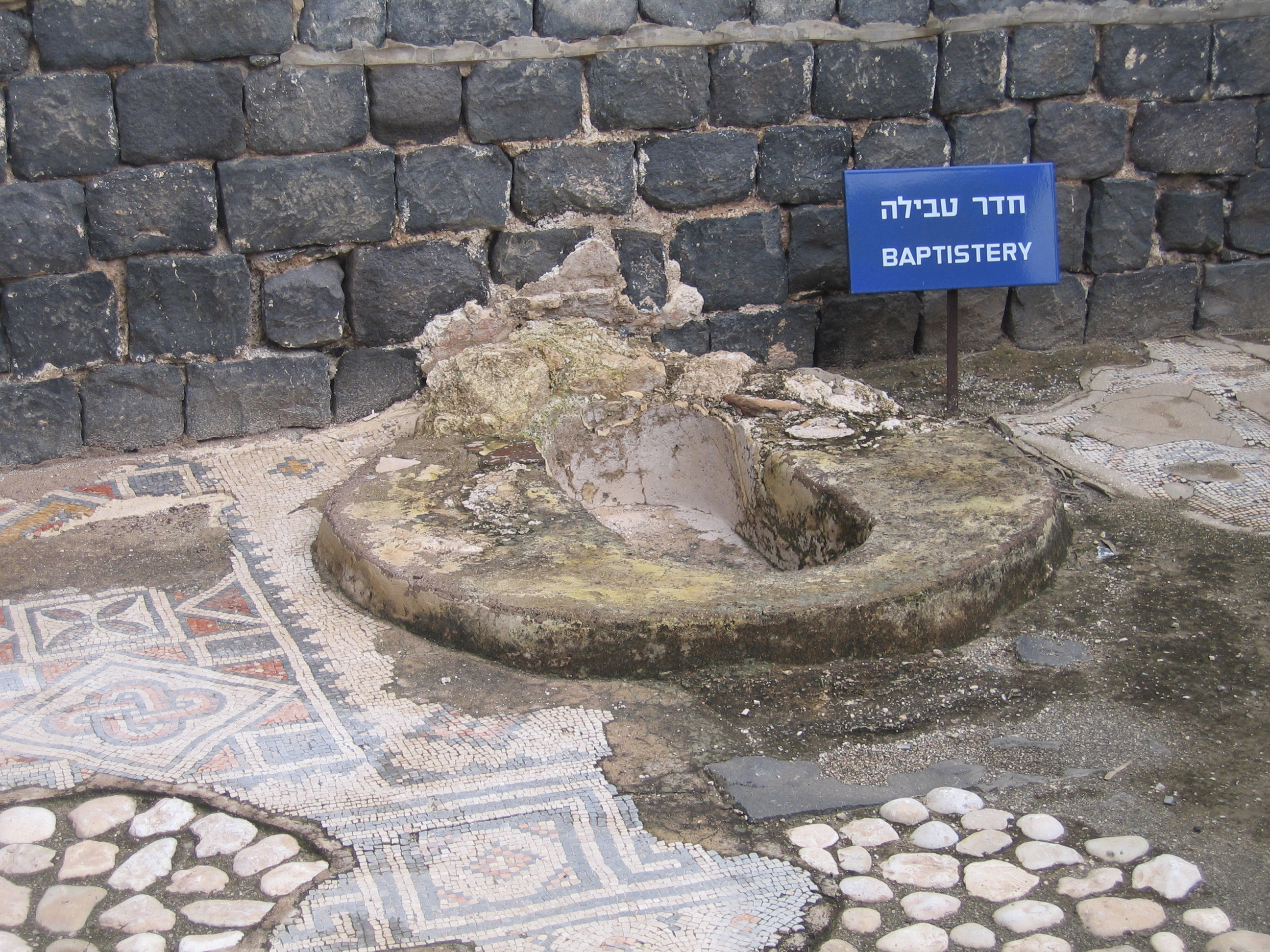 Kursi, Israel